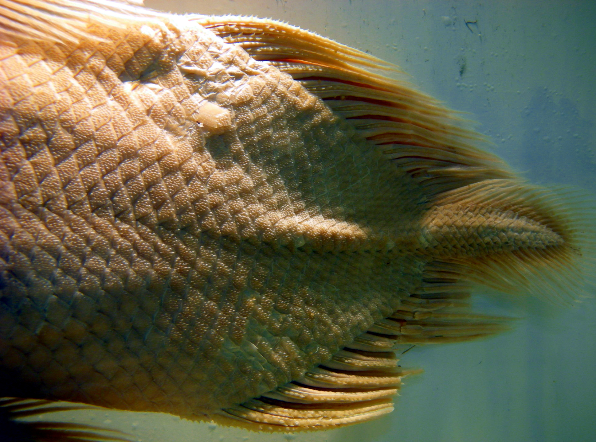 The caudal fin of a coelacanth, Natural History Museum, London